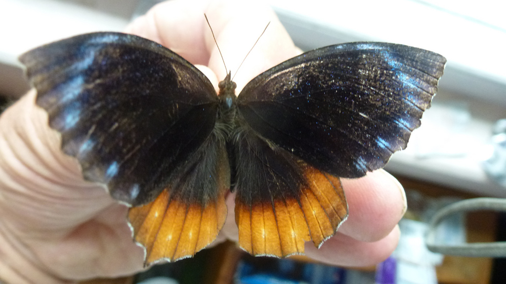 On best days saw up to four of this species. Lakeside and Damside. Hand held to reveal upperside.